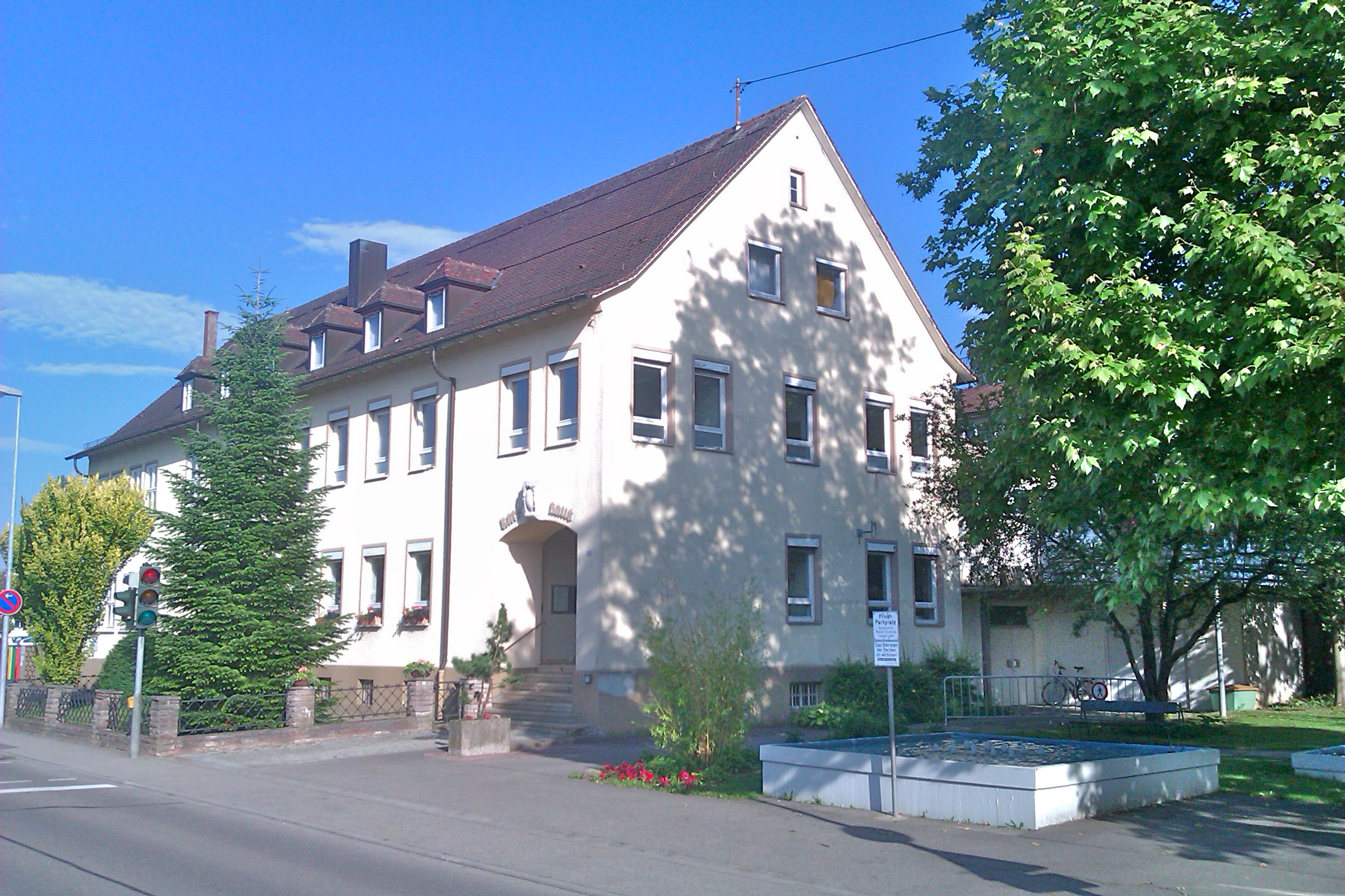 Former town hall of Weiler